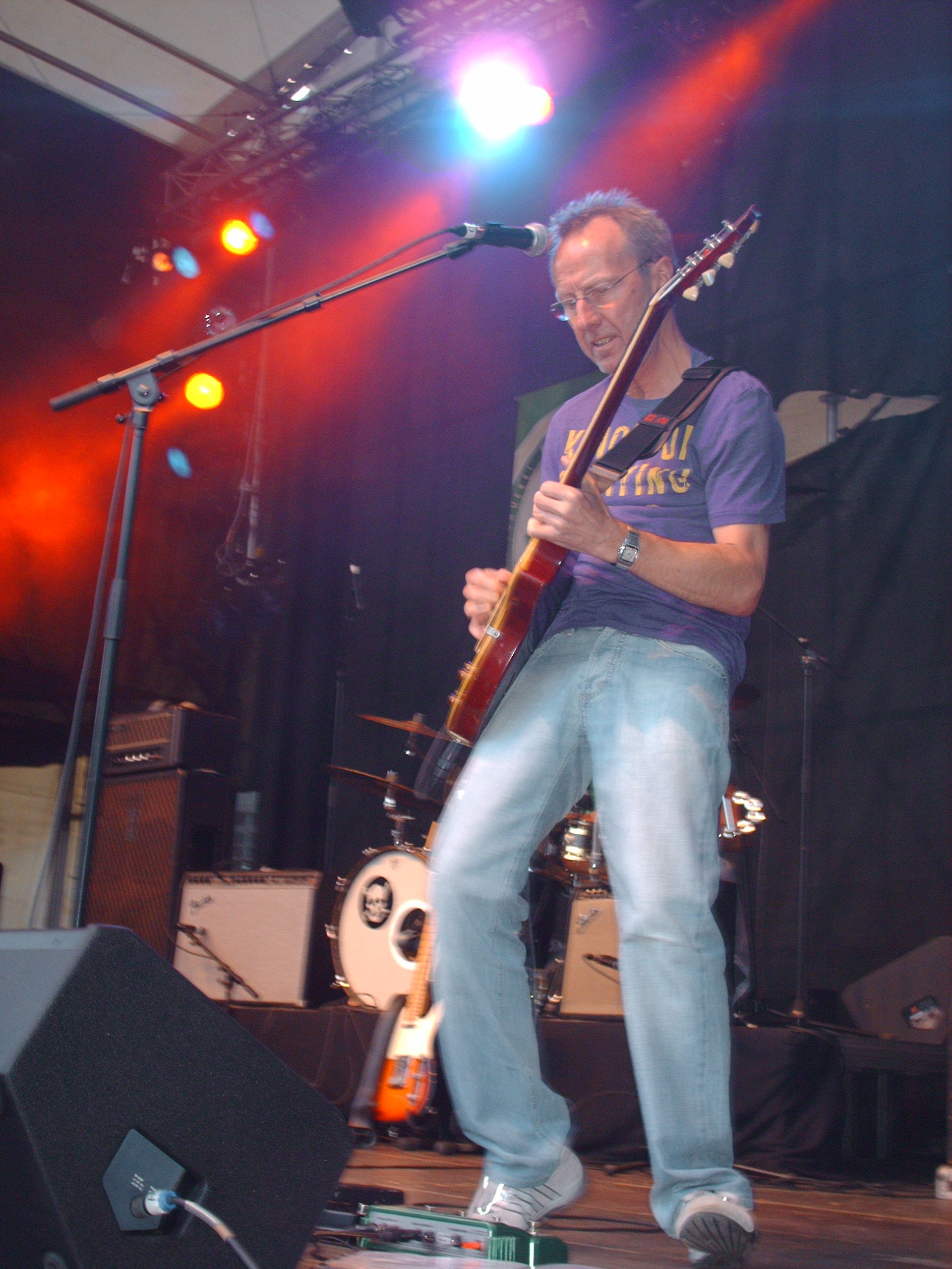 Clem Clempson, Gießen, Germany check usage